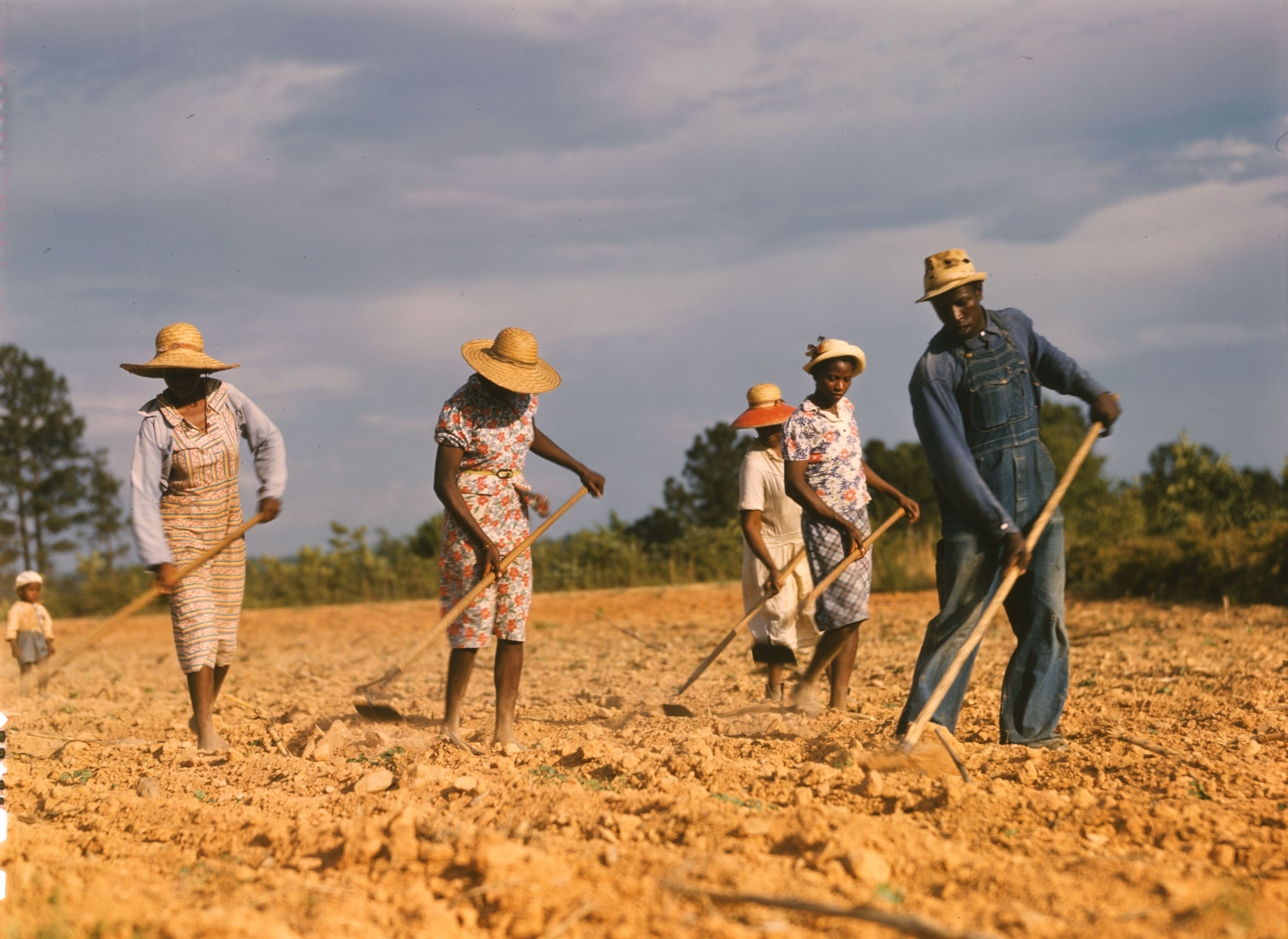 Sharecroppers chopping cotton on rented land near White Plains, Greene County, Ga.